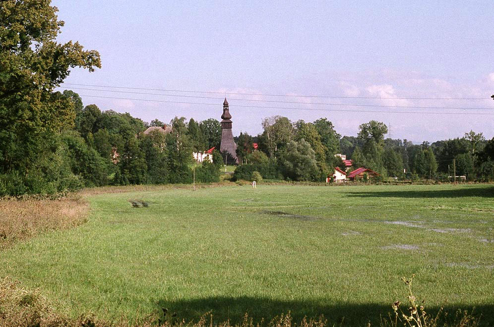 Kończyce Wielkie seen from under the palace.